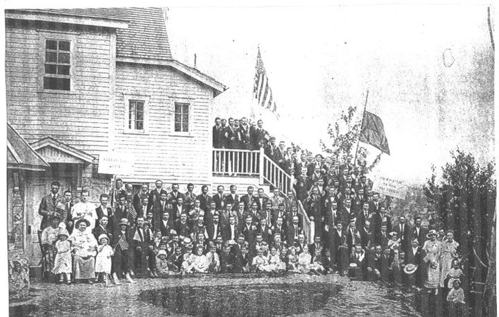 The Russian club Zaria (Заря), the Russian word for “dawn”. The club was named “Zaria” because they felt that the construction of their new church was their beginning of a new life in America, just as dawn is the beginning of a new day. The other sign reads “(Unidentified) --- Ready to Show Our Loyally.”